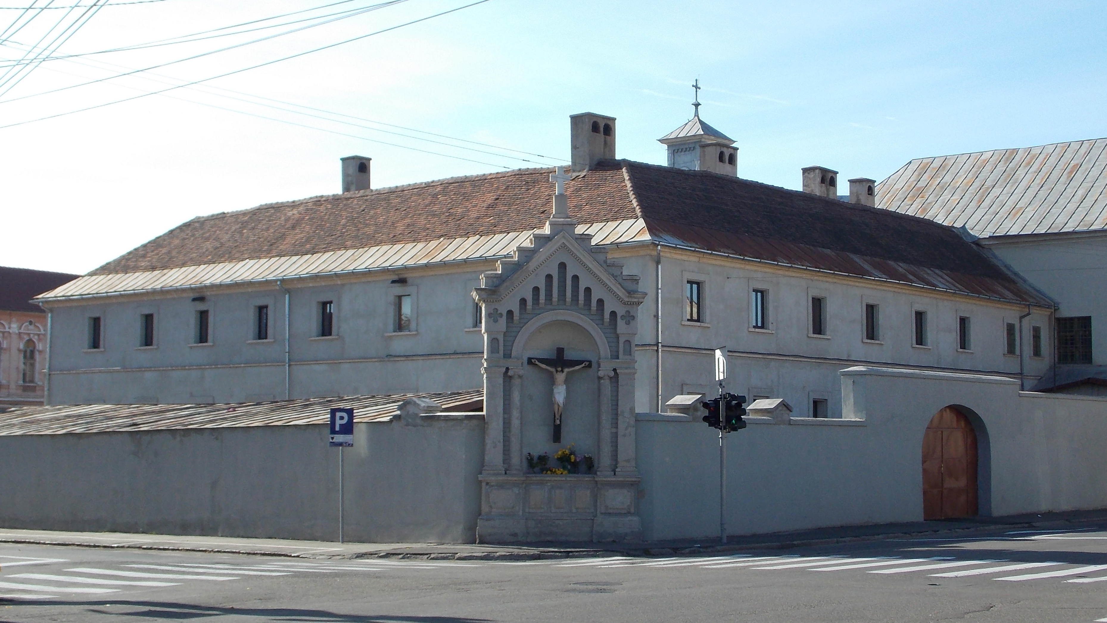 Capucin Order Monastery - Oradea